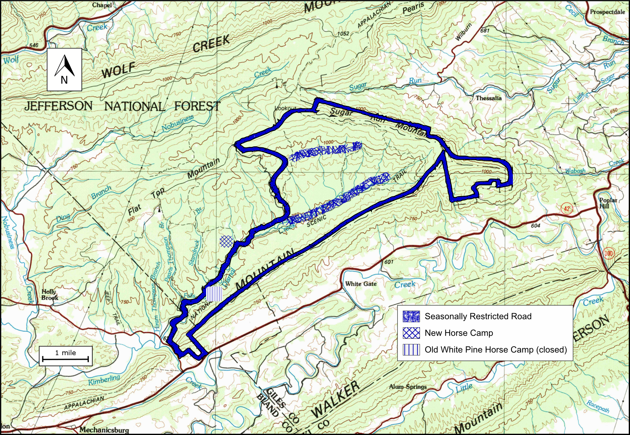 Boundary of the Dismal Creek wildland in the Jefferson National Forest as identified by the Wilderness Society